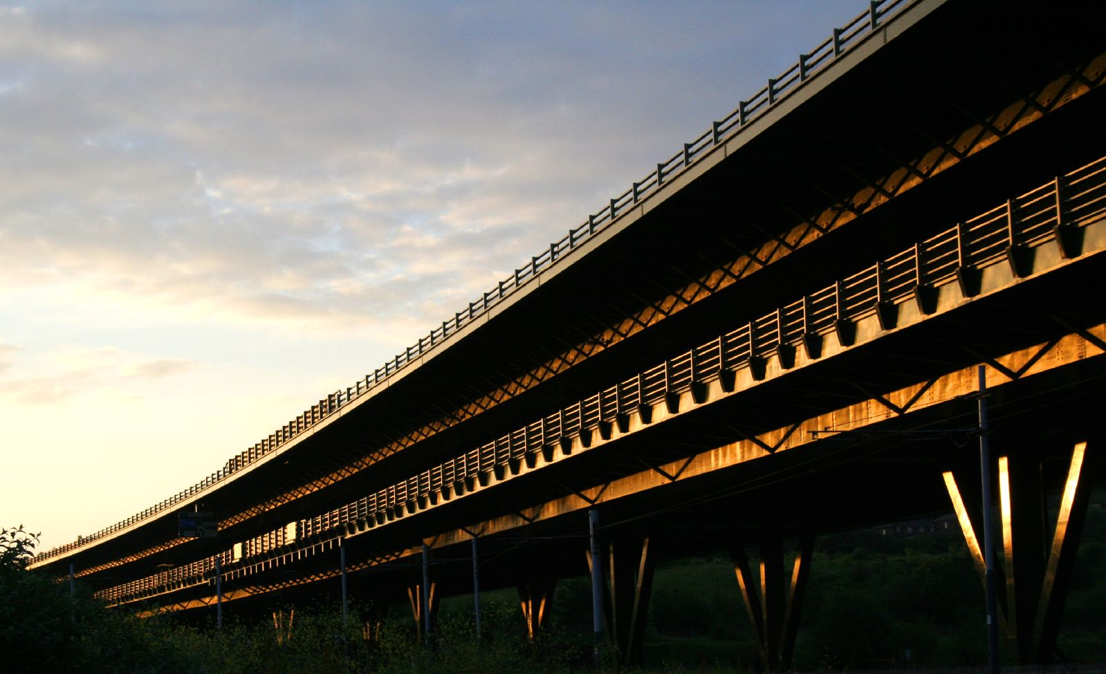 Tinsley viaduct at sunset [?]